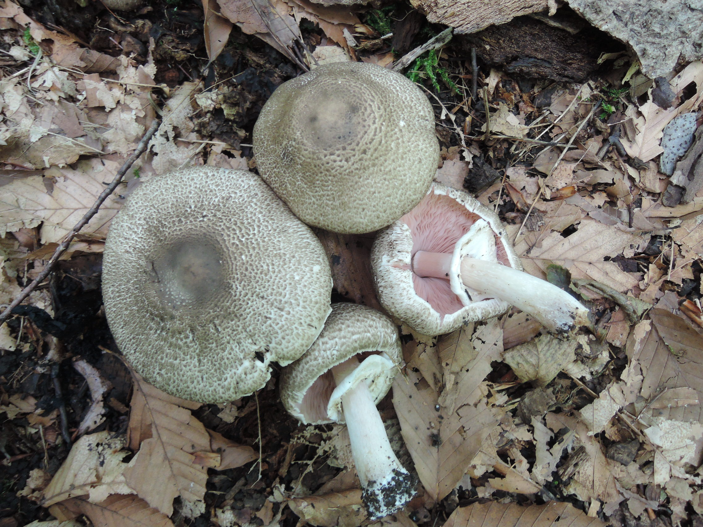 Agaricus bohusii Bon Image location: Hamilton, Ontario, Canada Deserves further study! Recognized by sight For more information about this, see the observation page at Mushroom Observer.